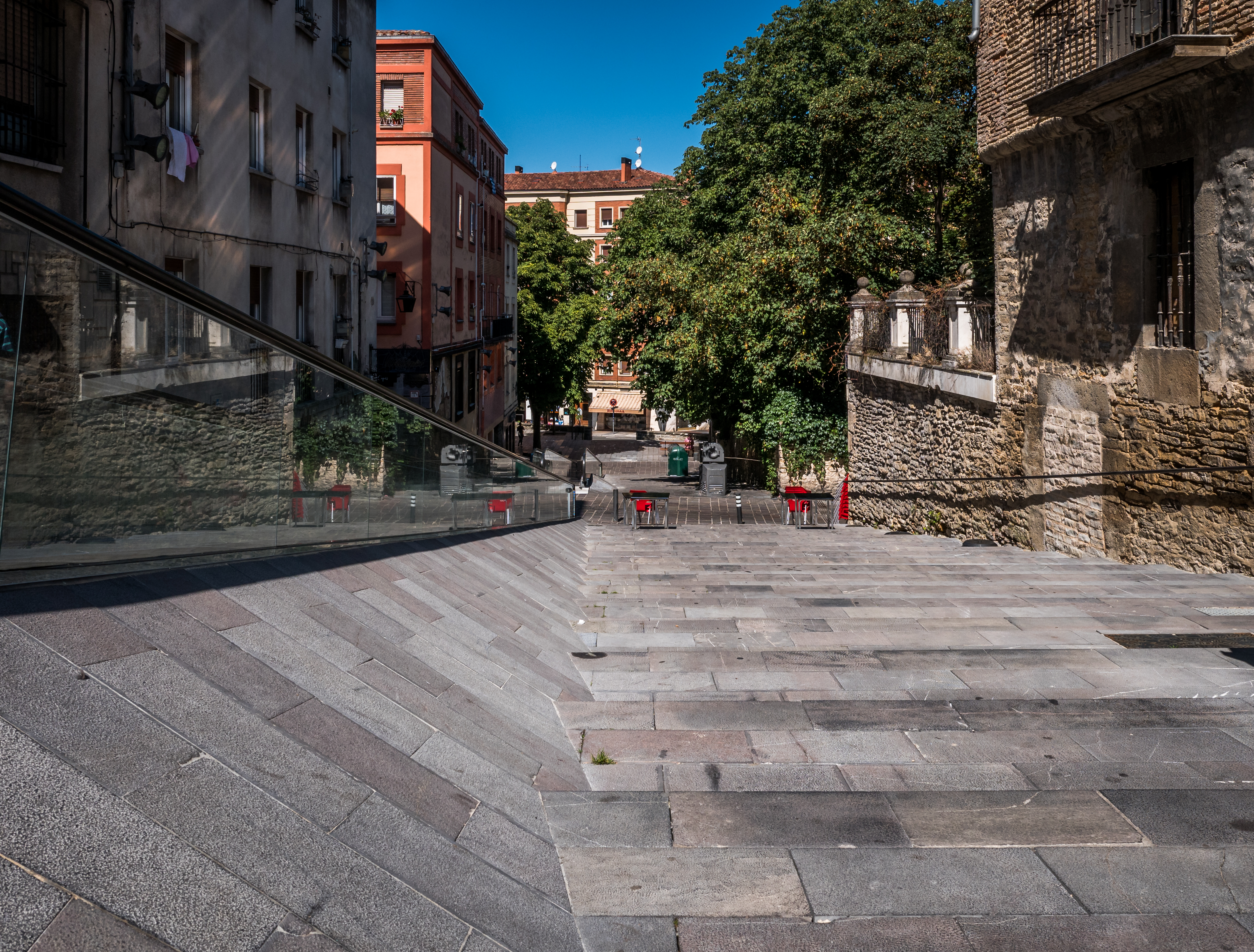 Street "Cantón del Seminario Viejo", stairway and escalator. Vitoria-Gasteiz, Basque Country, Spain